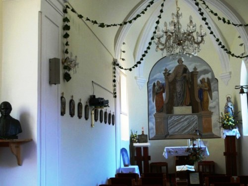 Notranjost cerkve sv luka